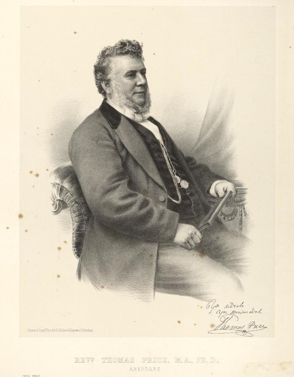 A portrait from the Welsh Portrait Collection at the National Library of Wales. Depicted person: Thomas Price – British minister